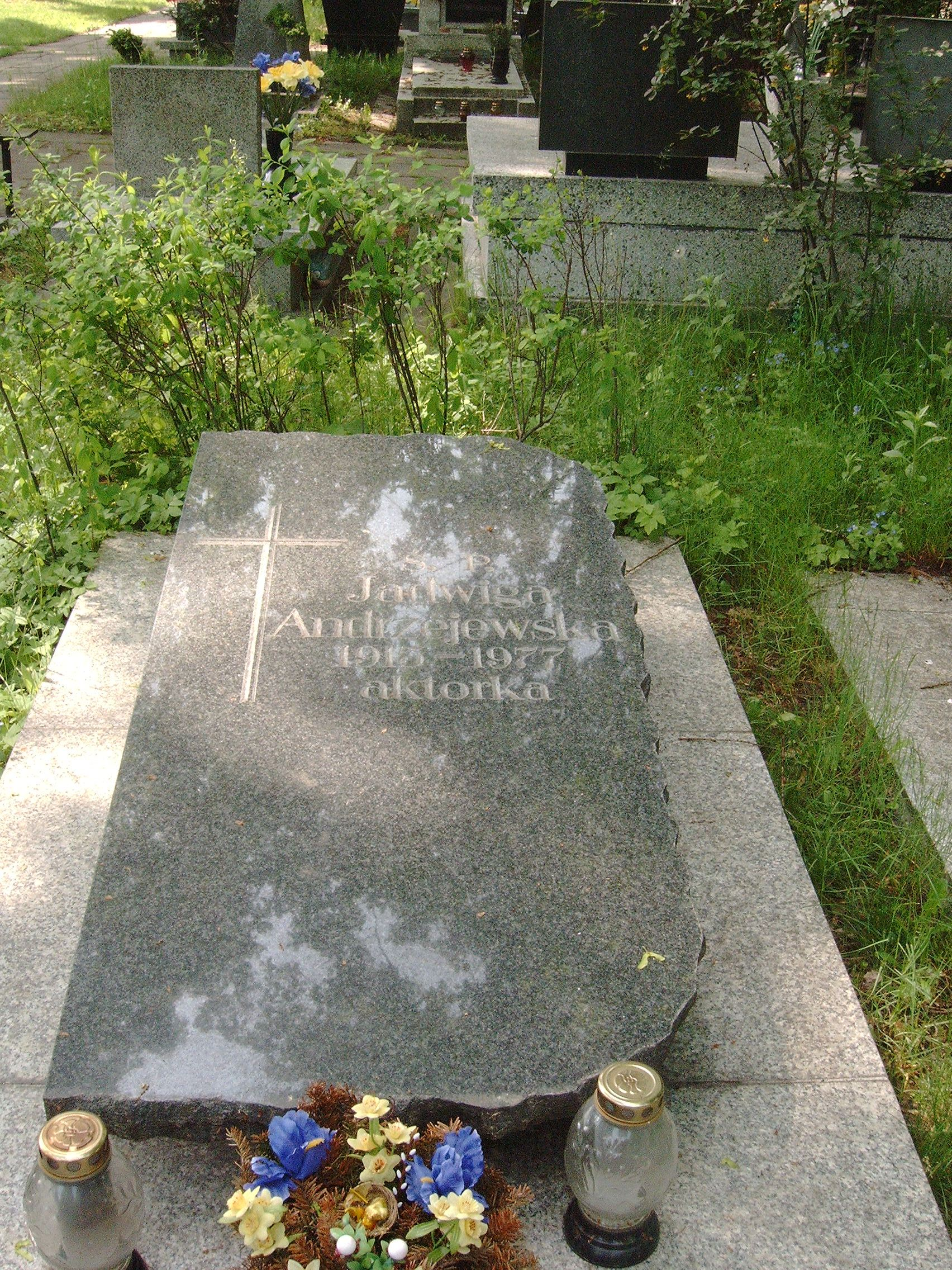 Grave of Polish actress Jadwigia Andrzejewskiej in Łódź.